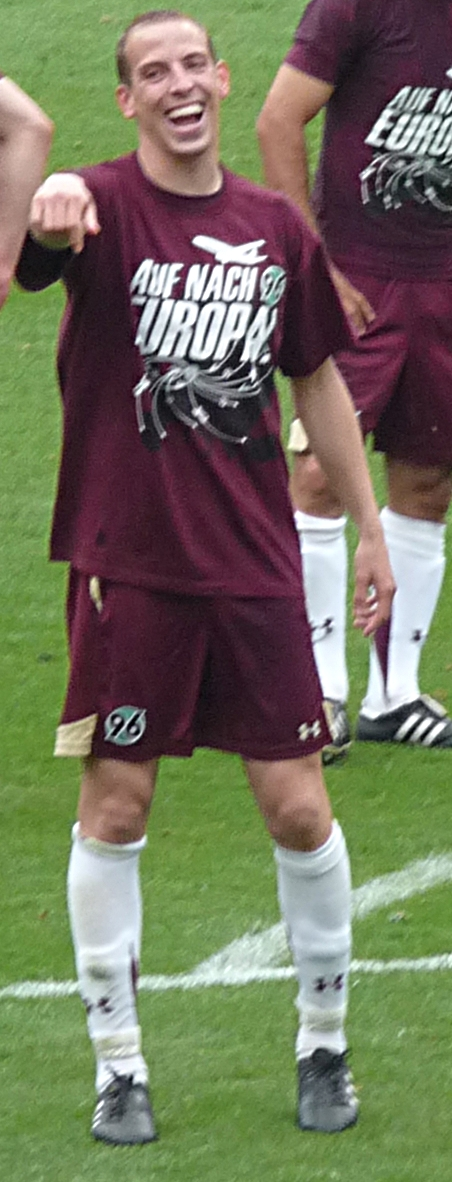 Jan Schlaudraff celebrates Hanover 96